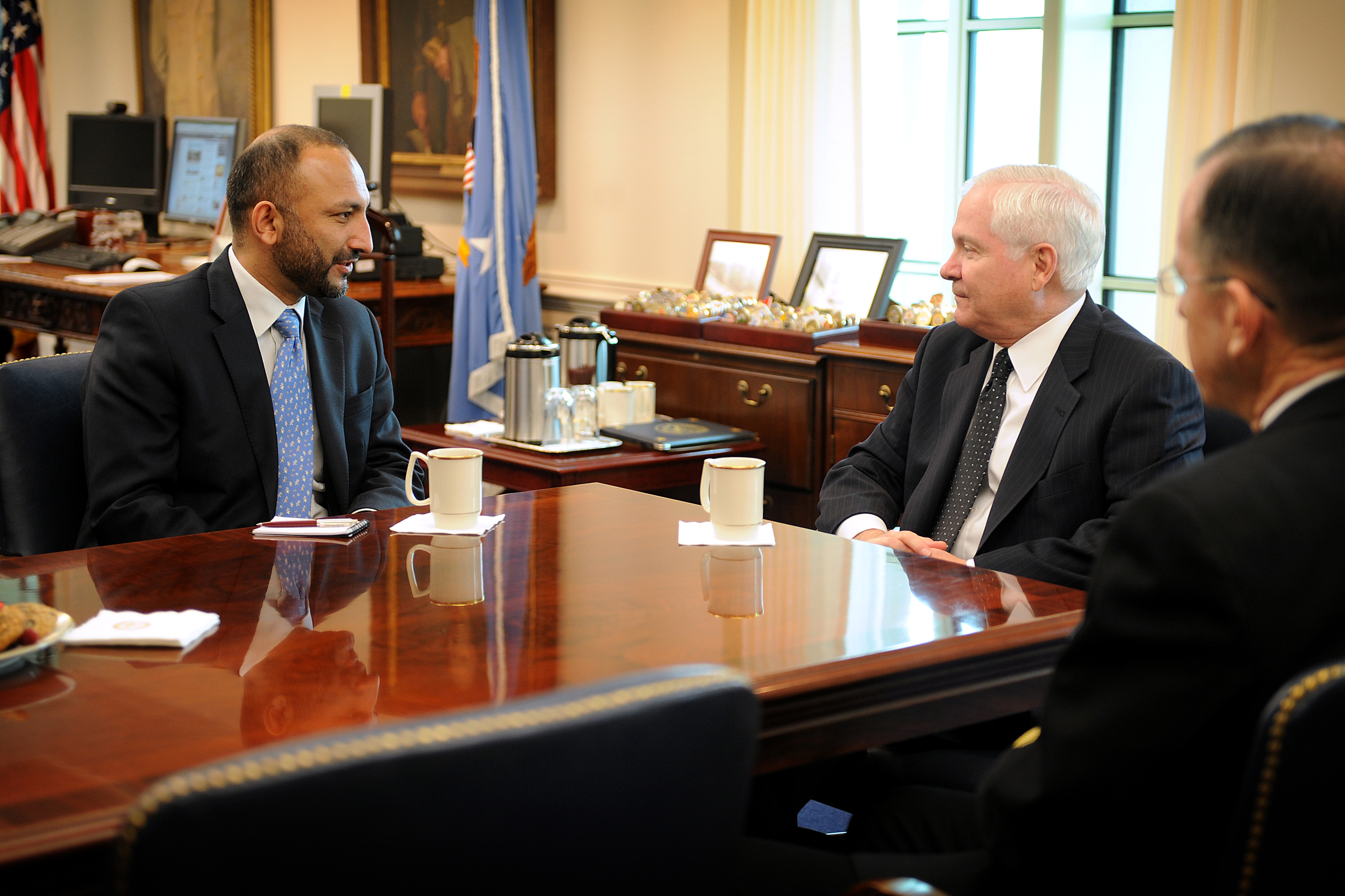 Afghan Interior Minister Mohammad Hanif Atmar (left) and US Secretary of Defense Robert Gates (right) at the Pentagon.